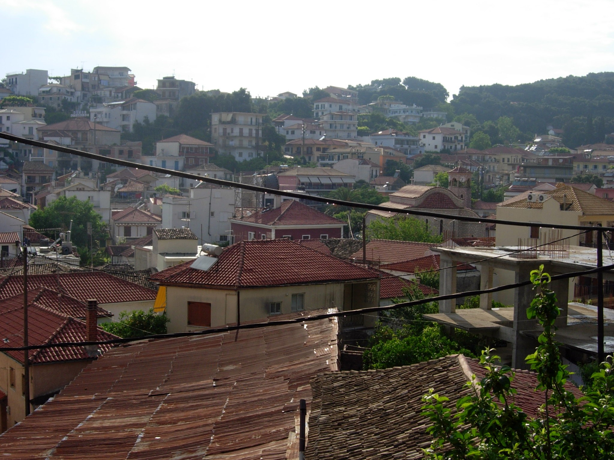 An overview of Parga